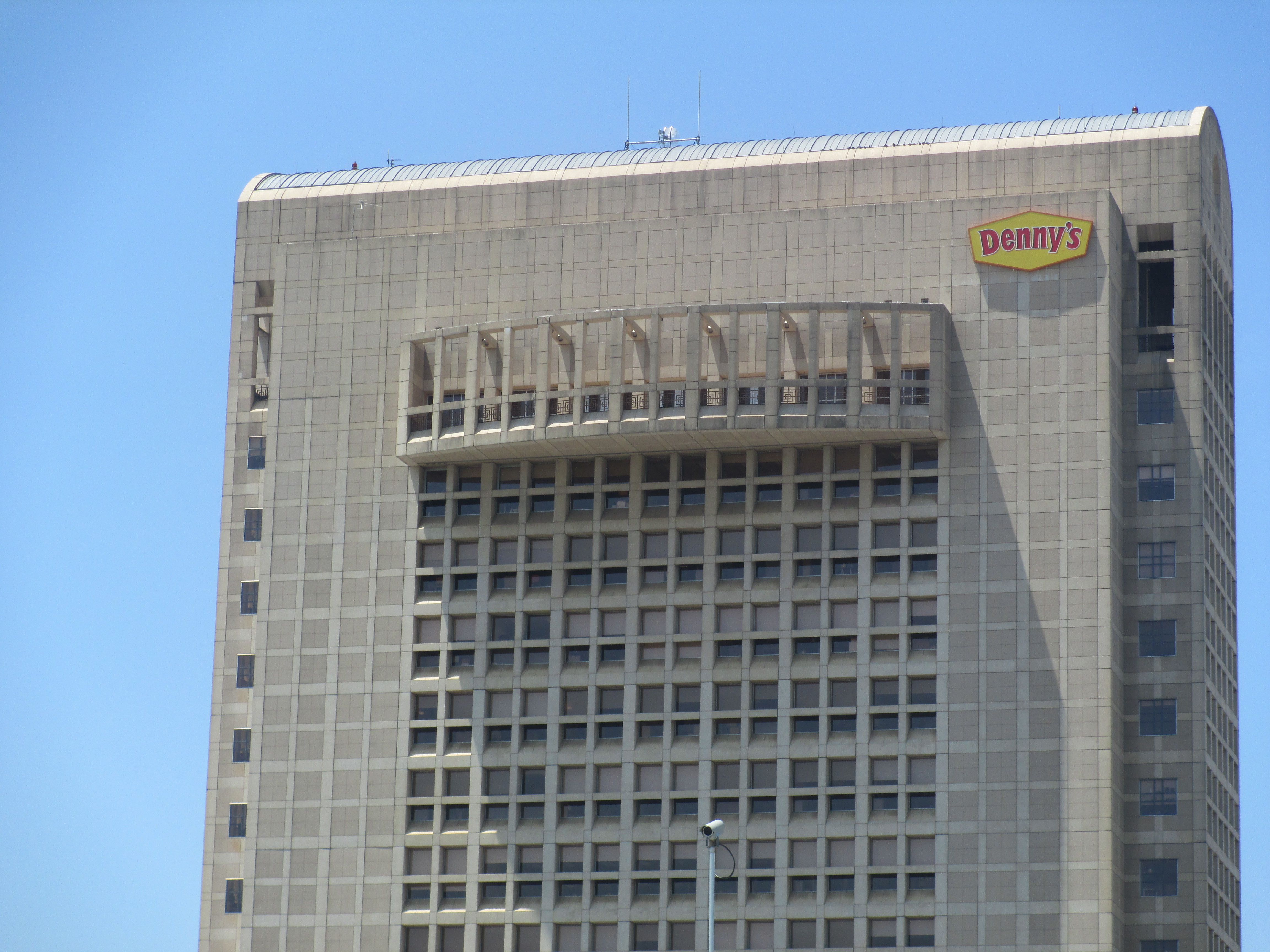 I took photo of Denny's restaurant headquarters in Spartanburg, SC, with Canon camera.